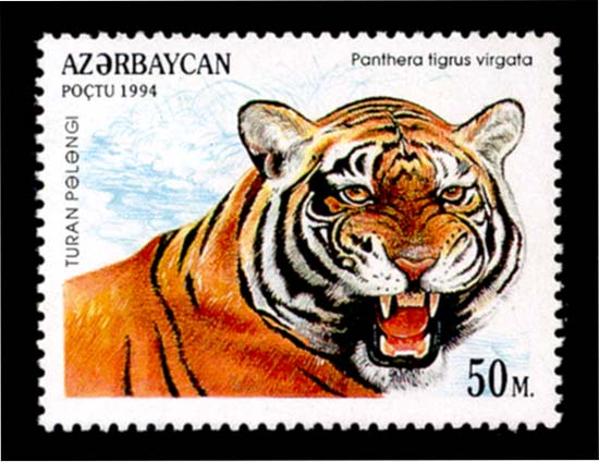 Stamp of Azerbaijan